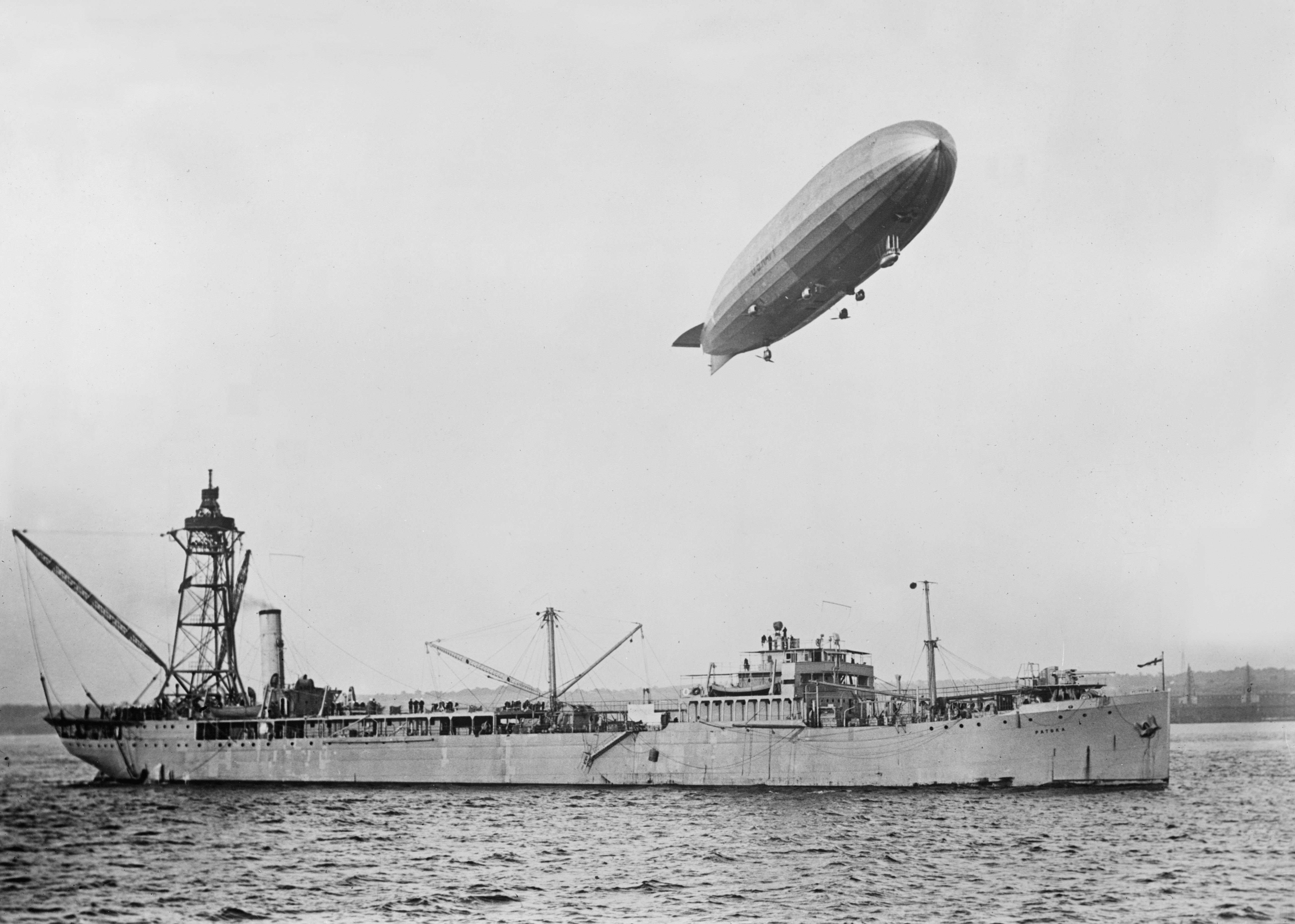 The U.S. Navy airship USS Shenandoah (ZR-1) in flight over the USS Patoka (AO-9), 1924/25.